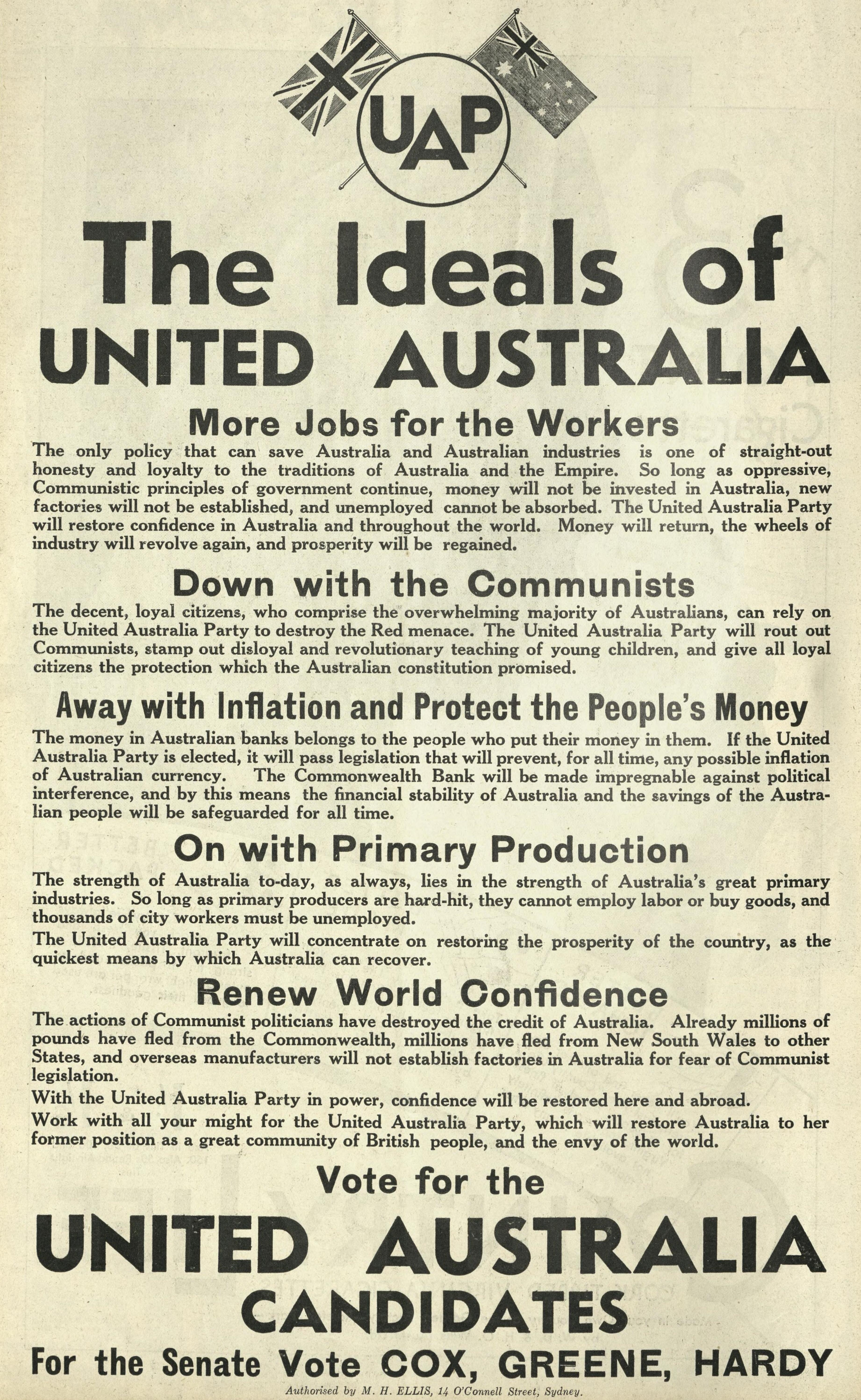 Australian election advertisement for the United Australia Party at the 1931 Australian federal election. The advertisement outlines the party's platform.